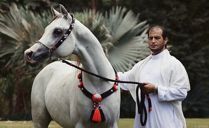 two Arab